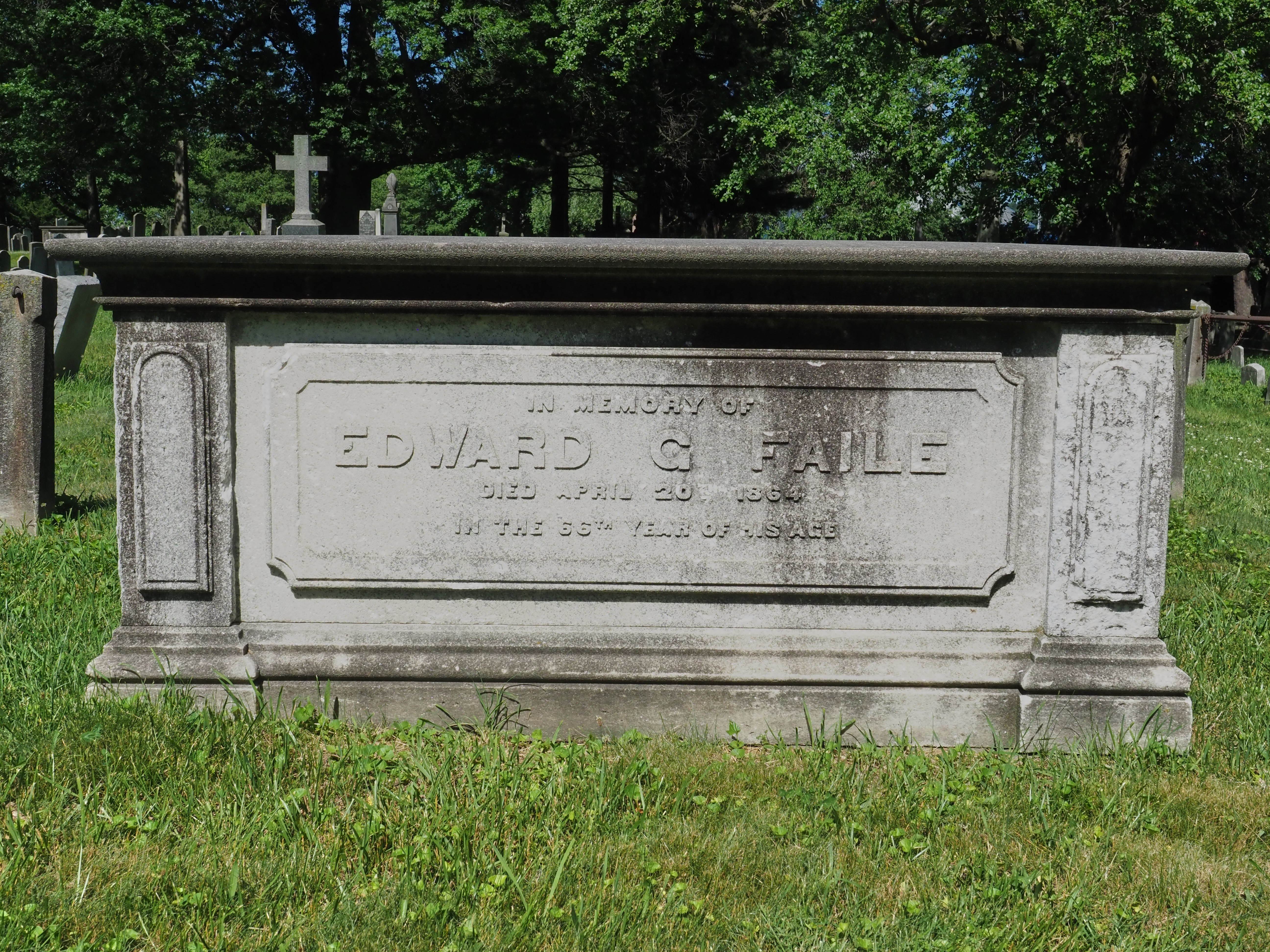 In memory of Edward G Faile Died April 29 1864 In the 66th year of his age